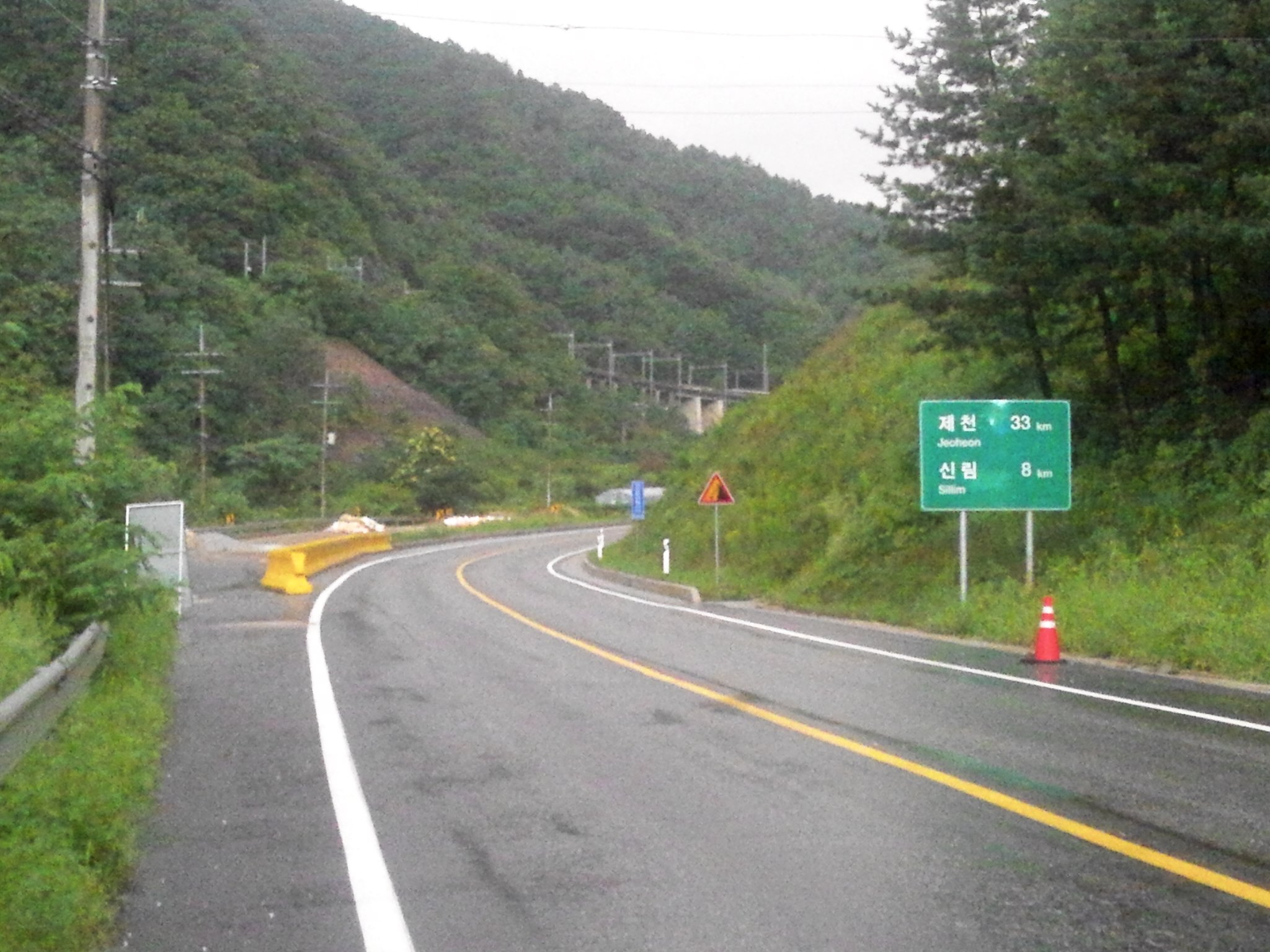 Korea Nationl Route 5 at Geumdae-ri, Panbu-myeon, Wonju, Gangwon-do (South)